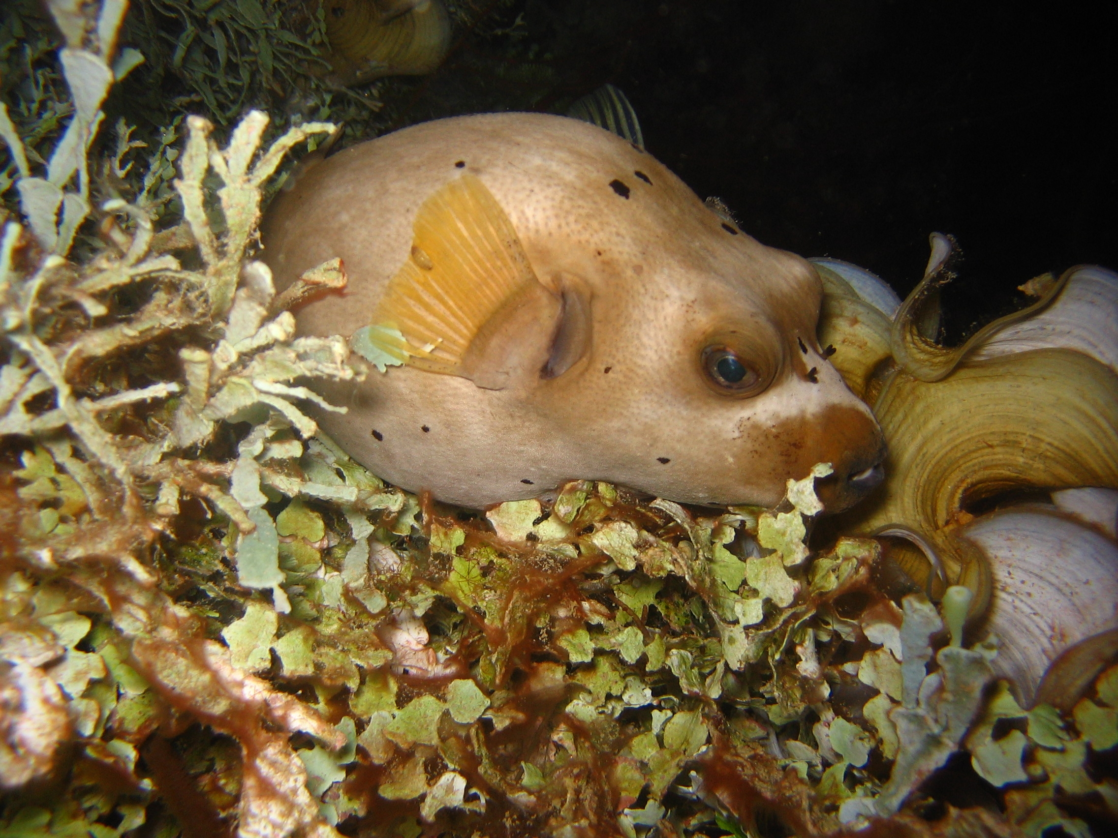 Arothron nigropunctatus Image ID: reef0580, NOAA's Coral Kingdom Collection Location: Chuuk, Federated States of Micronesia